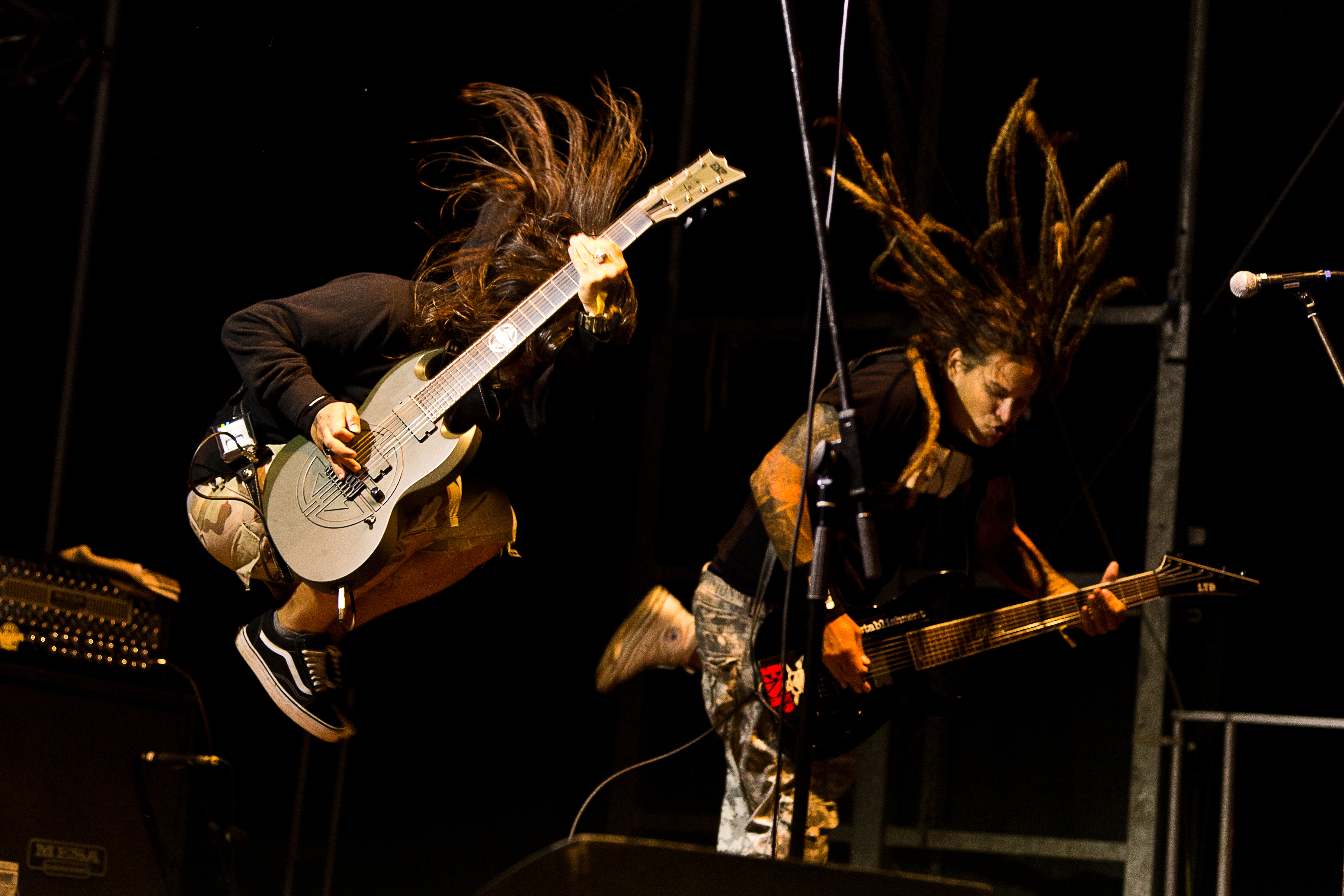 The Hungarian thrash metal band Ektomorf at the Rockharz Open Air 2015 in Ballenstedt/Germany.